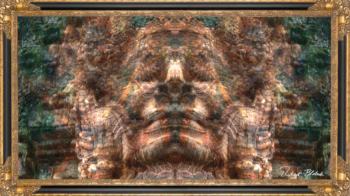 Low resolution photo of Robert Blalack artwork.